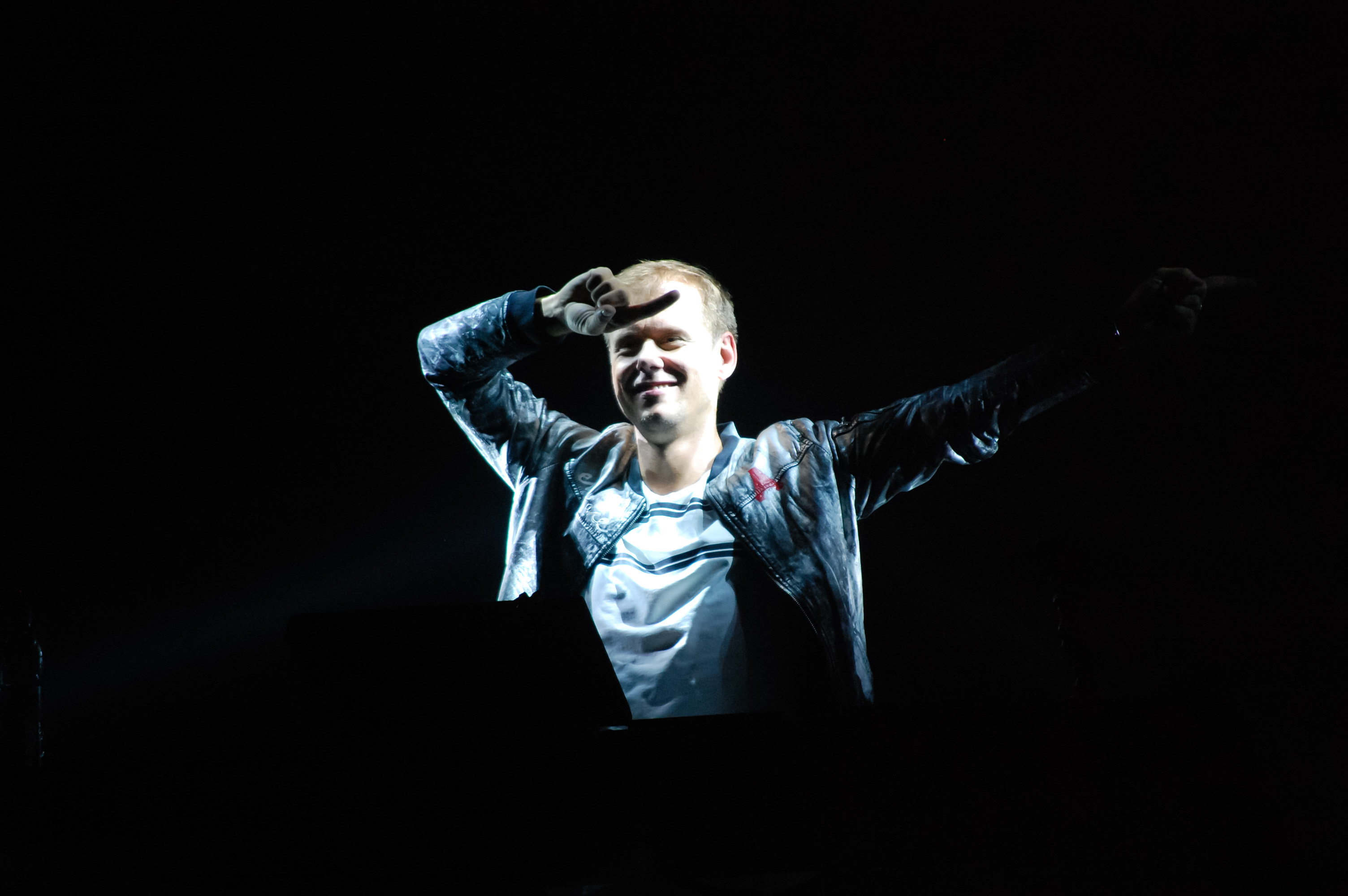 Armin Only Embrace @ IEC, Kyiv, Ukraine. 25.02.2017